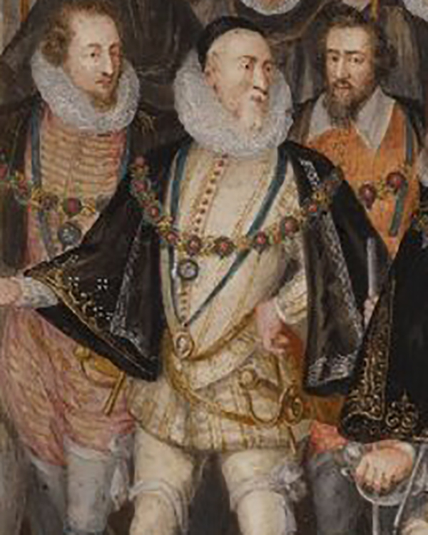 Detail of procession portrait of Elizabeth I of England c. 1601 showing Knight of the Garter, Charles Howard, Lord Howard of Effingham and Lord Admiral. Source: Strong, Roy. Gloriana. Thames and Hudson, 1987, pp. 154-5.